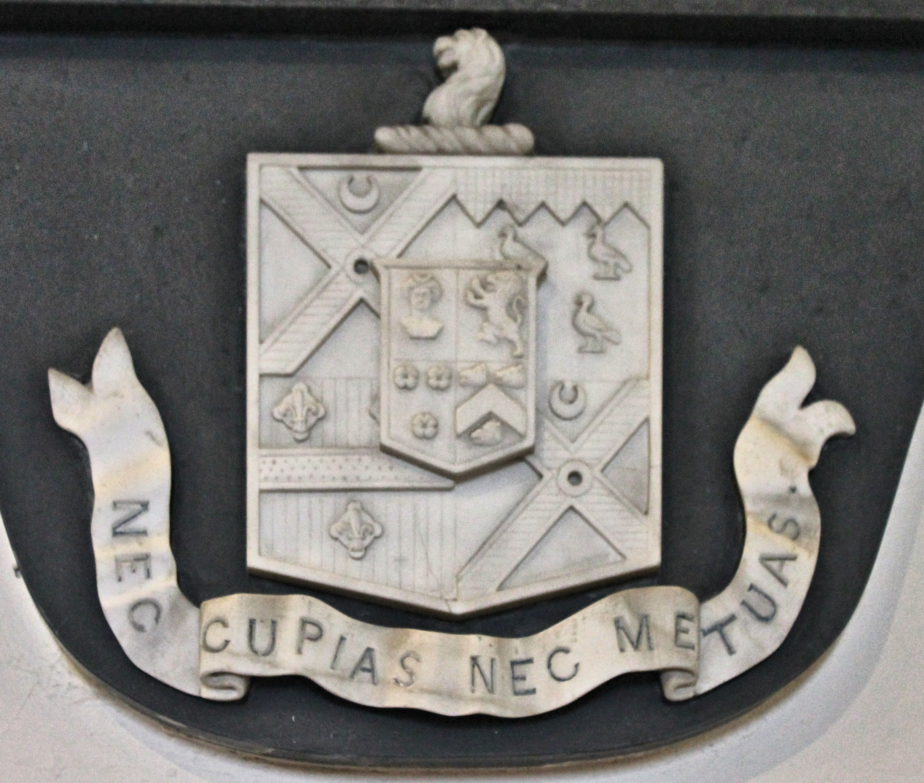 Nec Cupias, Nec Metuas: may you want nothing and fear nothing. Yorke family crest / motto; Coat of Arms. St. Sannan Church, Llansannan, Conwy, North Wales. Built 13th Century; Grade II*.